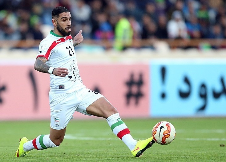 Iran Overpowers Turkmenistan in World Cup Qualifying